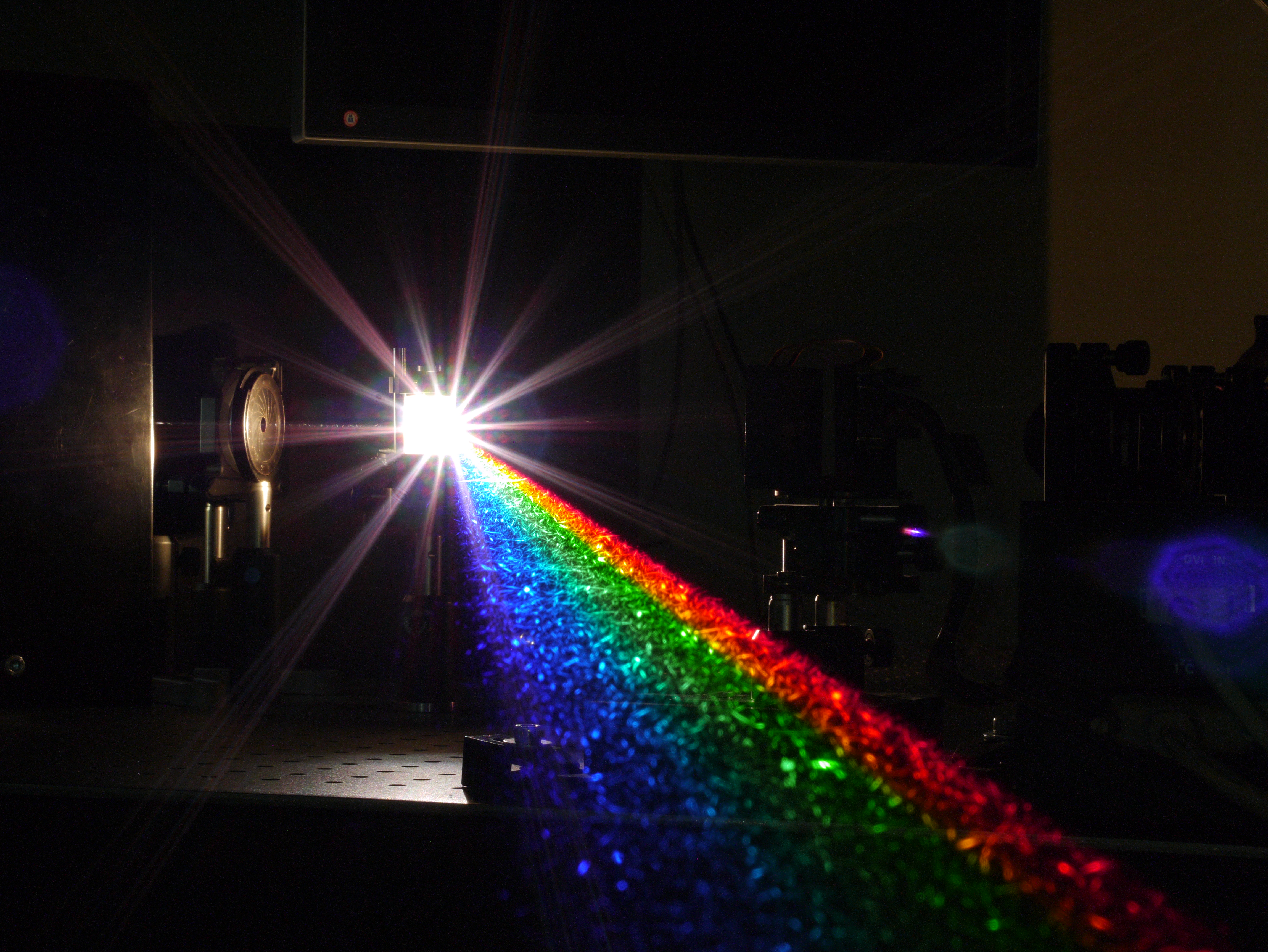 White laser beam dispersed into its spectrum by a prism. Beam is visible due to the dust in the air.